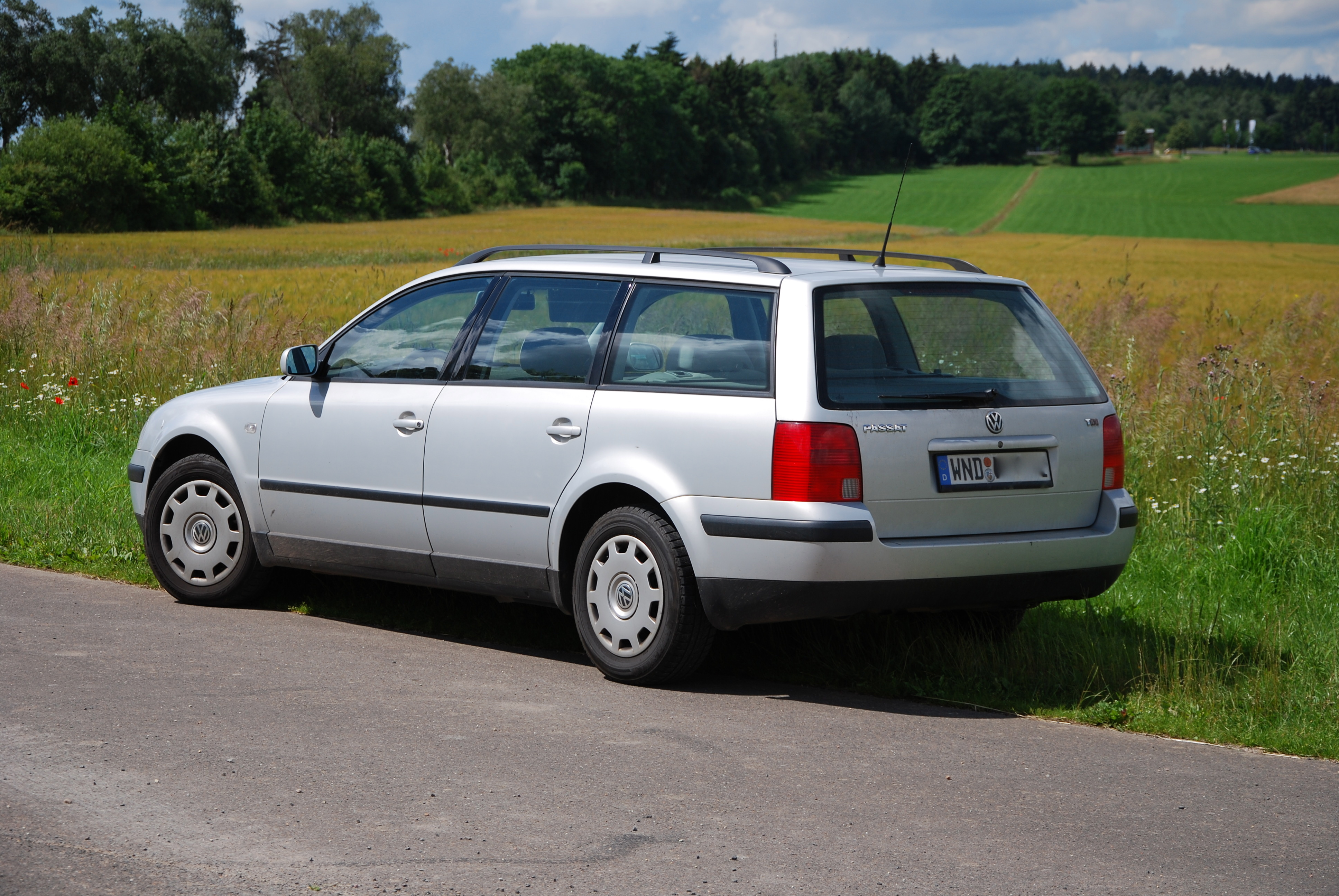 A Volkswagen Passat B5 as a station wagon.